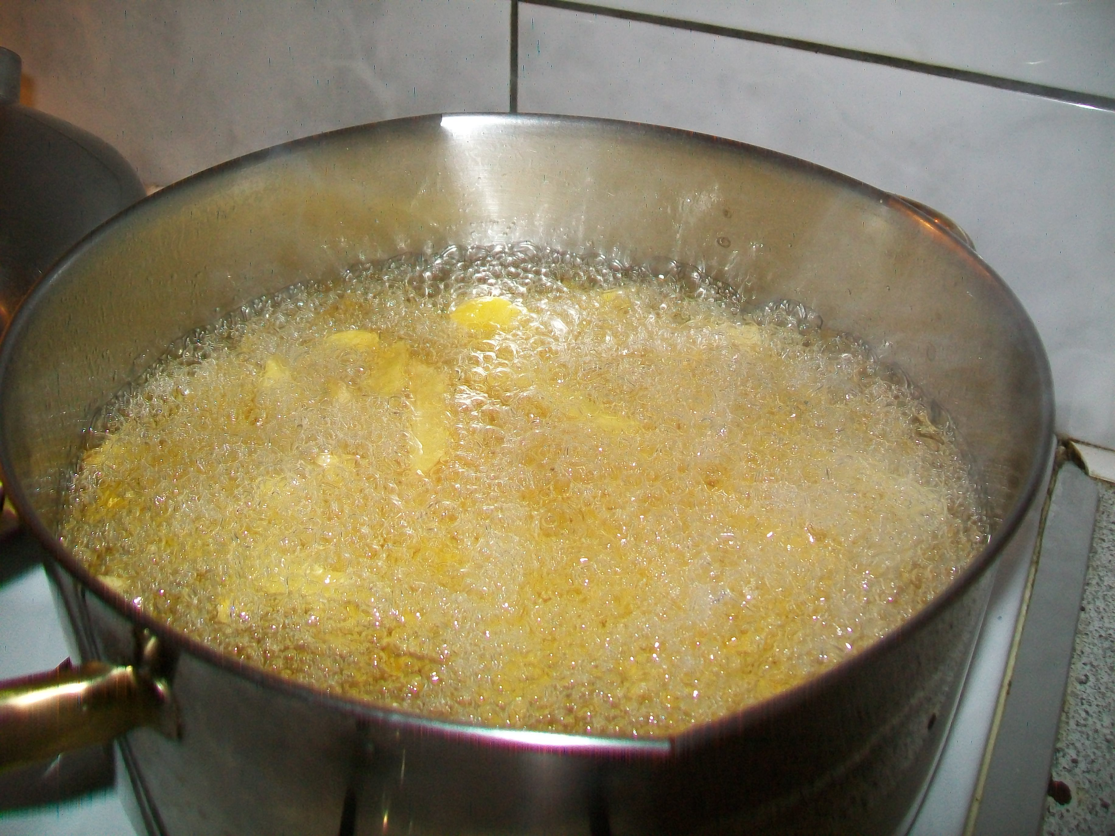 Chips in the pot